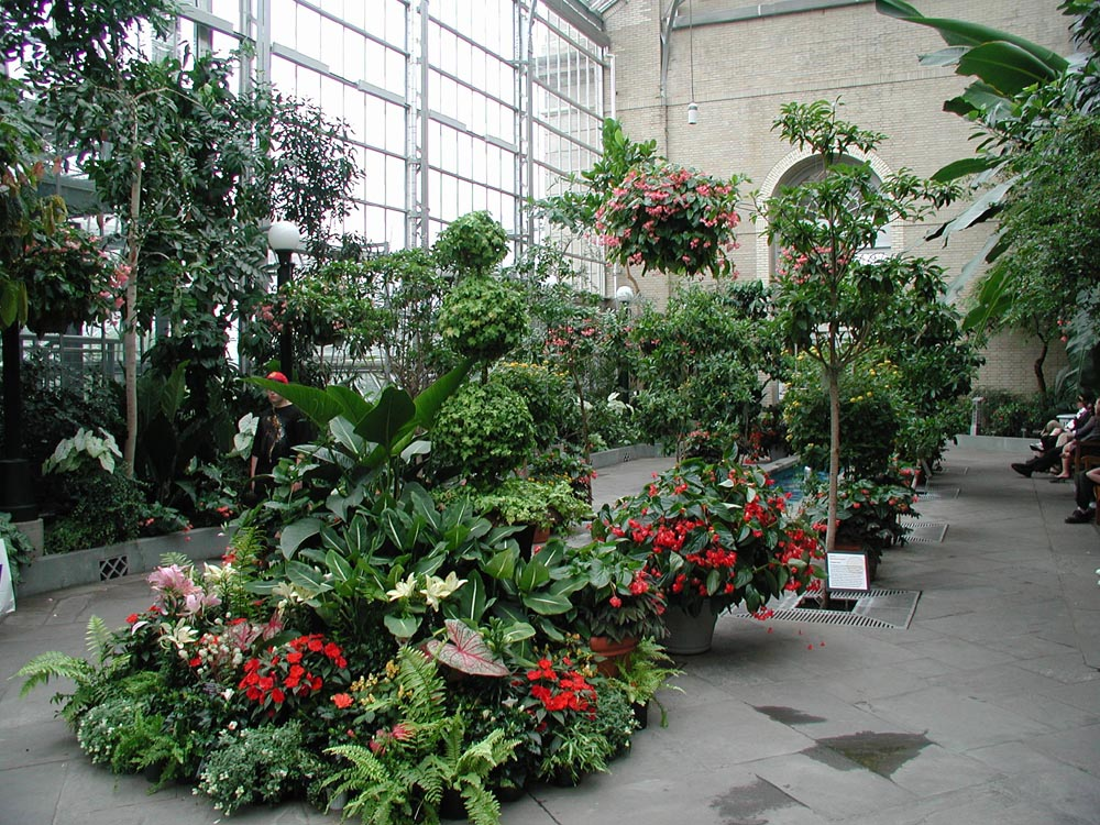 from Image:US botanic garden 3.jpg 02:59, 25 June 2004 UTC. Taken by Raul654 on June 23, 2004. Uploaded by Alma mater 9:49, April 2006 UTC. Picture from inside the United States Botanic Garden.